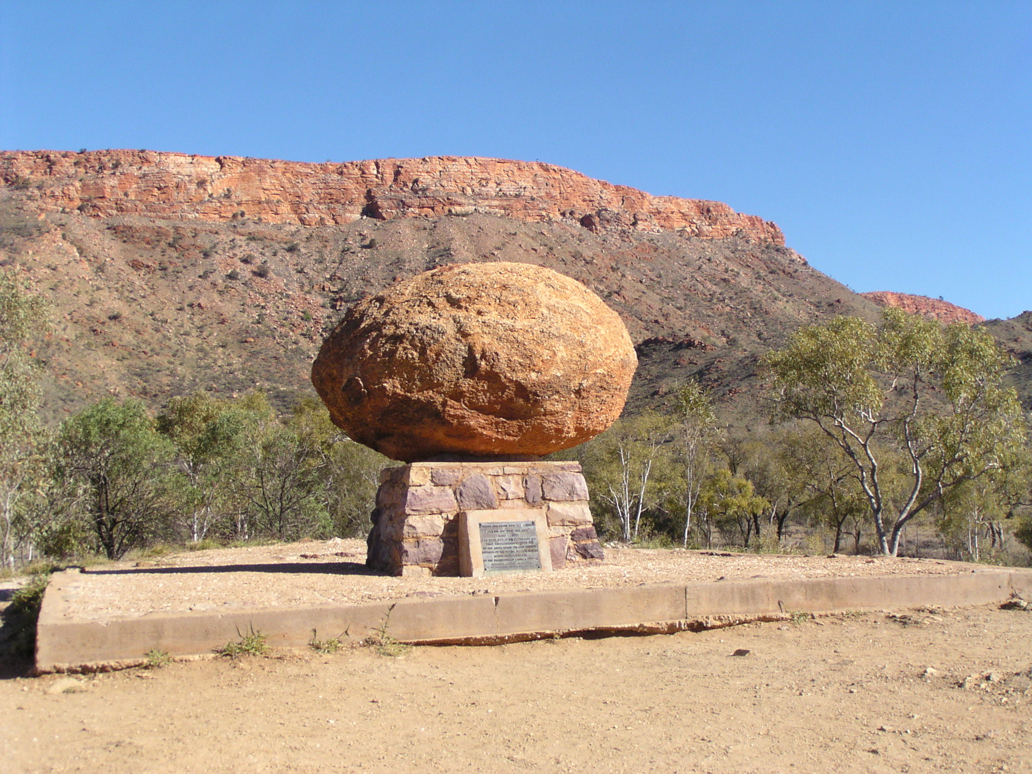 Grave of Rev John Flynn west of Alice Springs